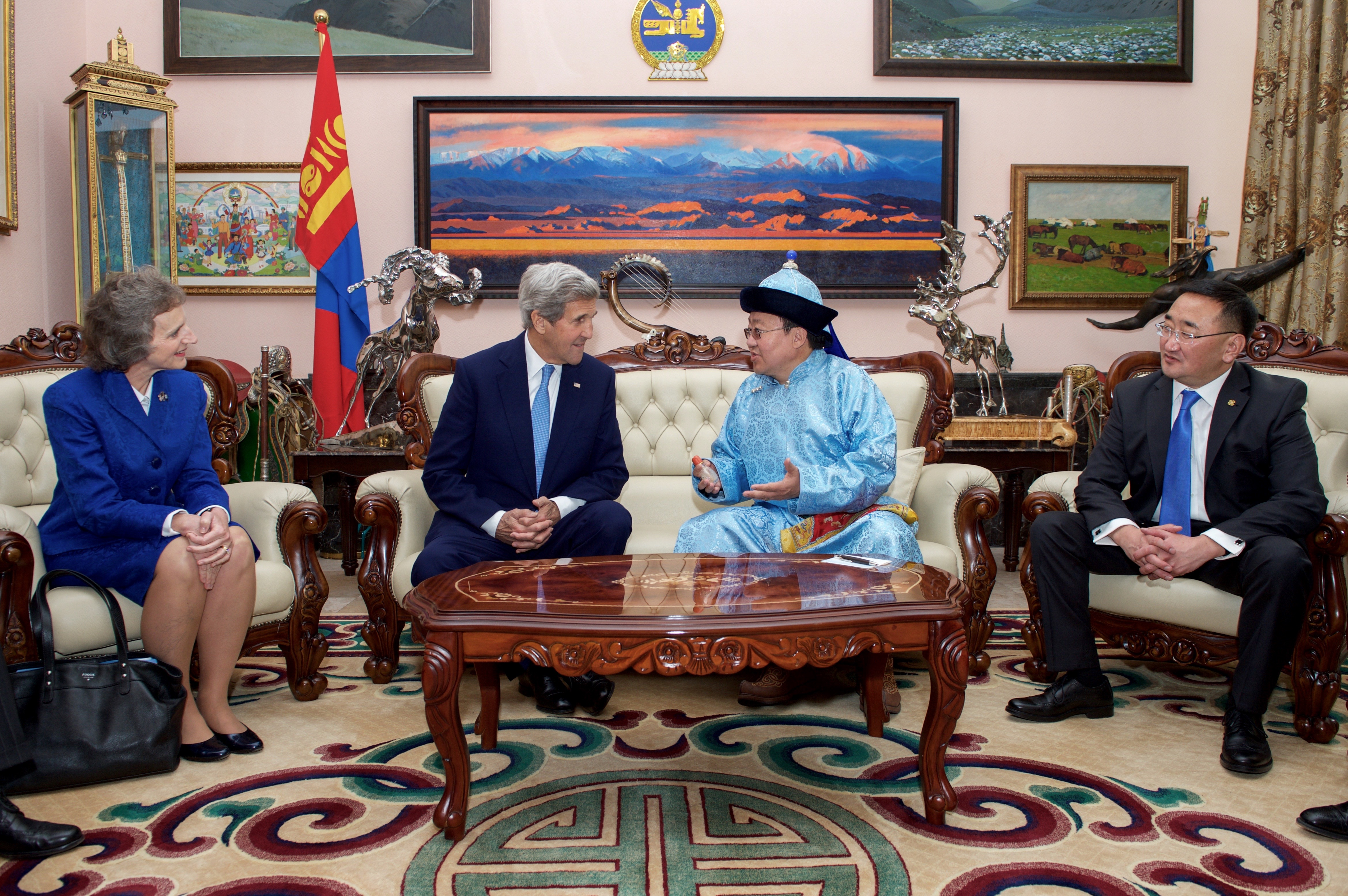 U.S. Secretary of State John Kerry sits with Mongolian President Tsakhia Elbegdorj and members of their respective delegations on June 5, 2016, at the Ikh Tenger leadership compound in Ulaanbataar, Mongolia, before a bilateral meeting following an earlier conversation with Mongolian Foreign Minister Lundeg Purevsuren. [State Department Photo/Public Domain]